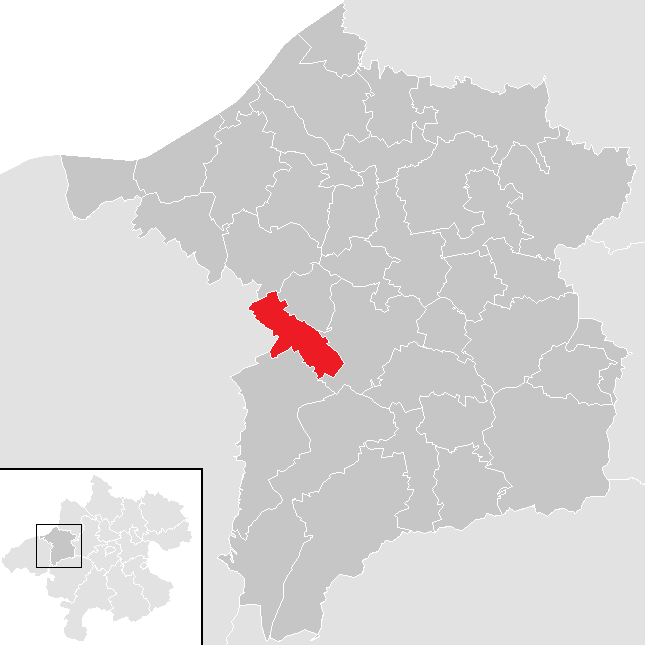 district Ried im Innkreis